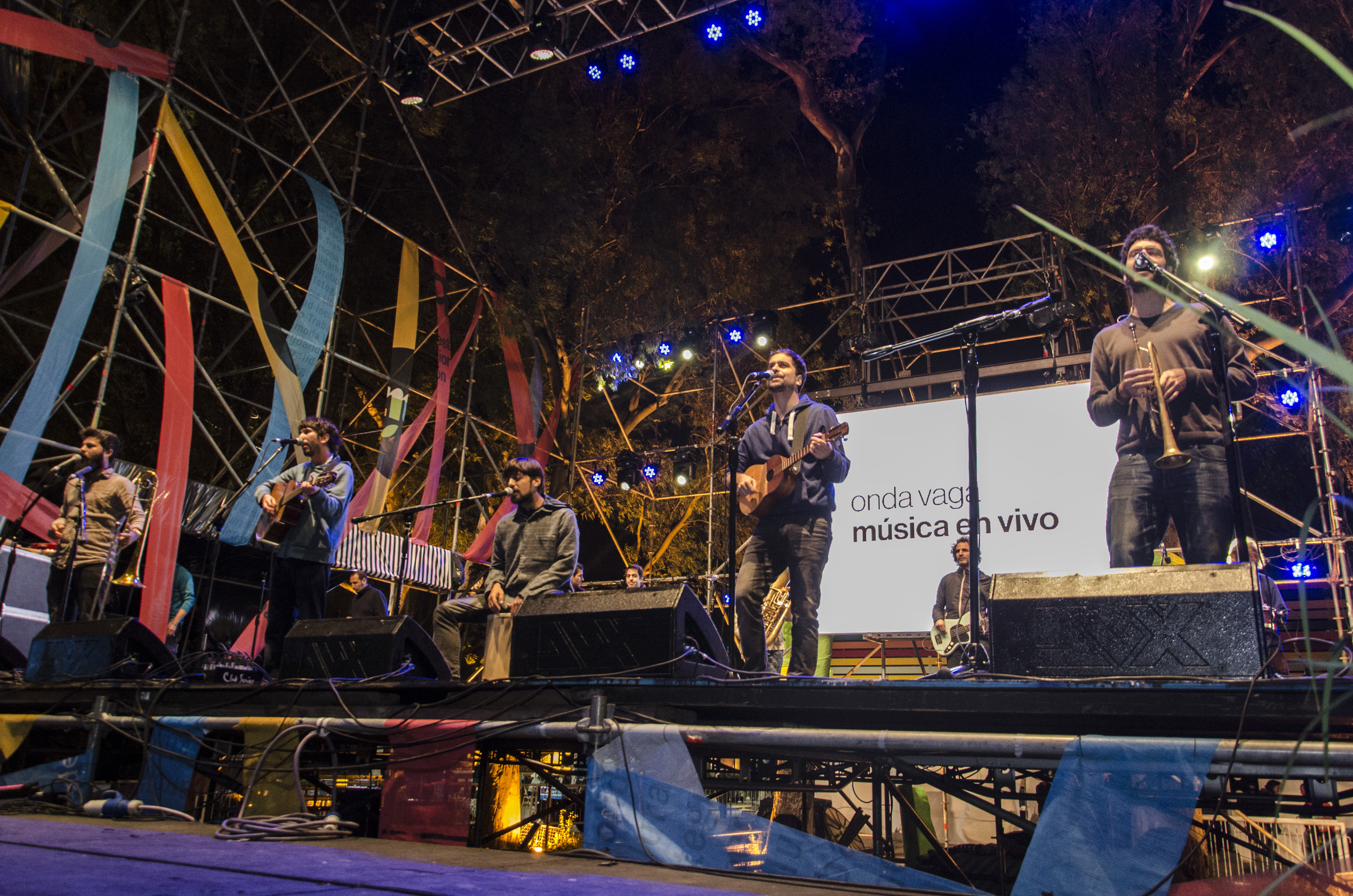 Villa Martelli, 31 de octubre de 2014 - Primer día de "Raíz Festival Gastronómico" en Tecnópolis.Fotos: Romina Santarelli / Ministerio de Cultura de la Nación.